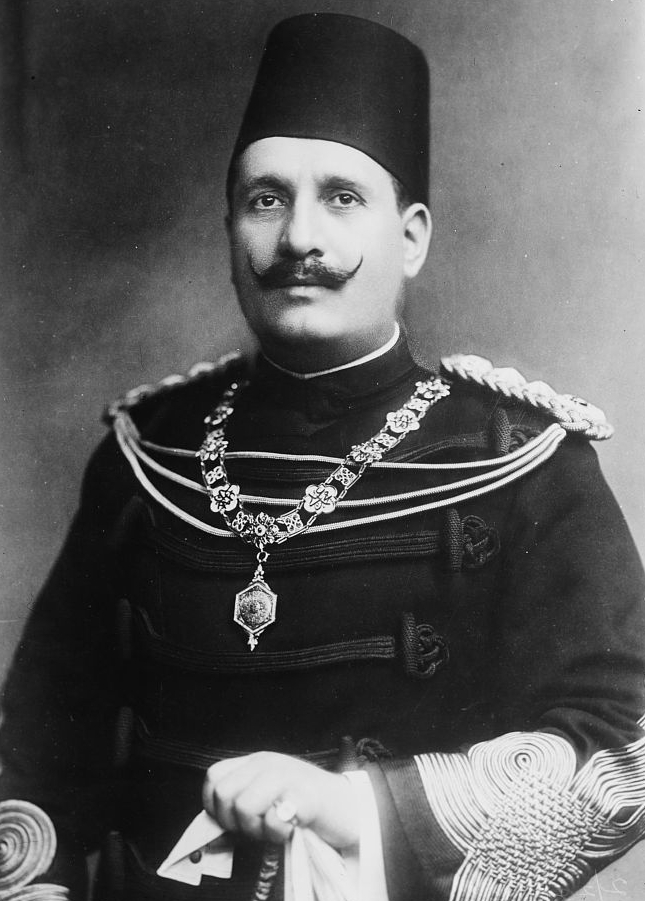 Photograph of Fouad I (1868-1936), Sultan then King of Egypt.